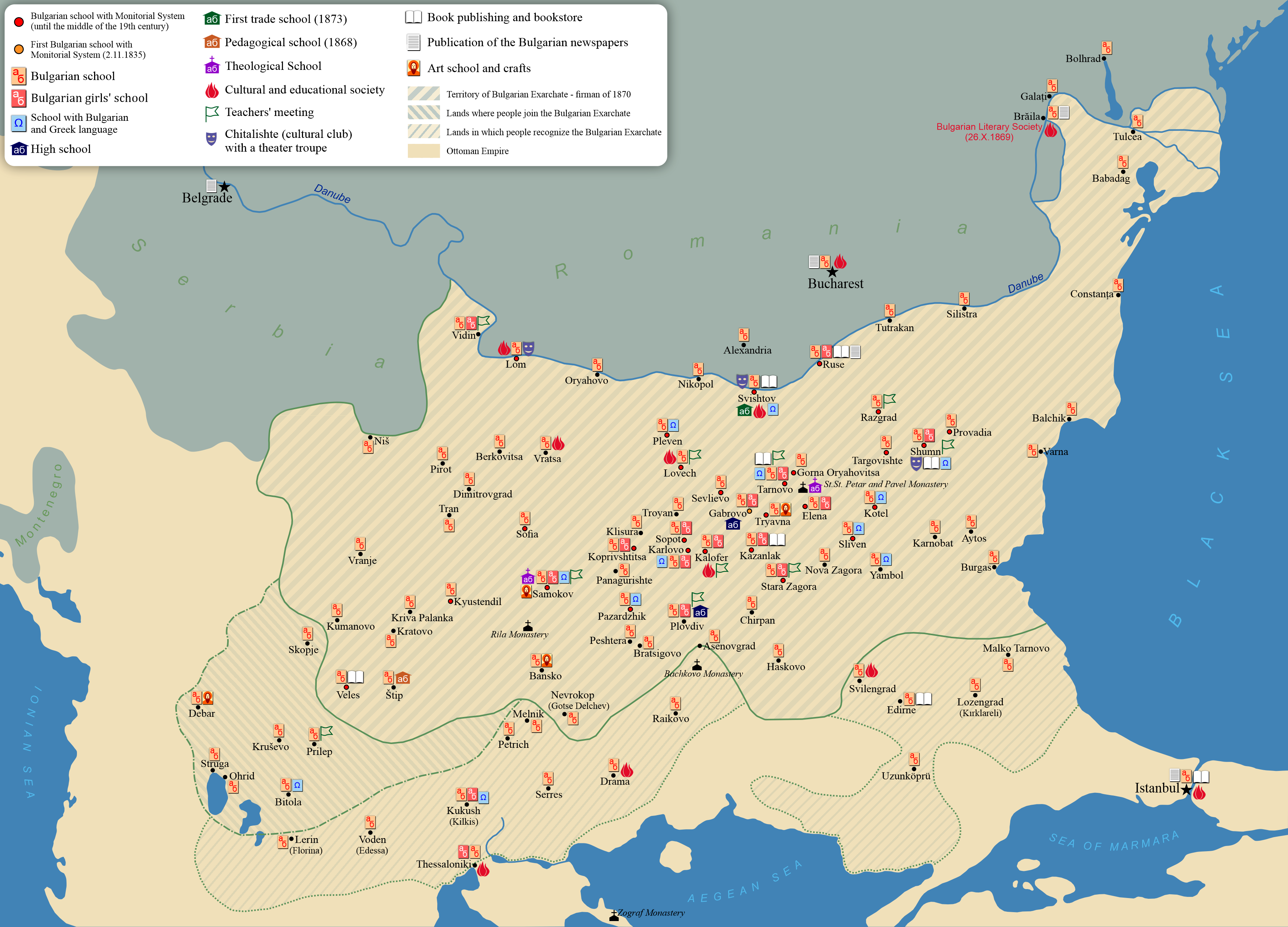 Bulgarian National Revival(18-19 century)